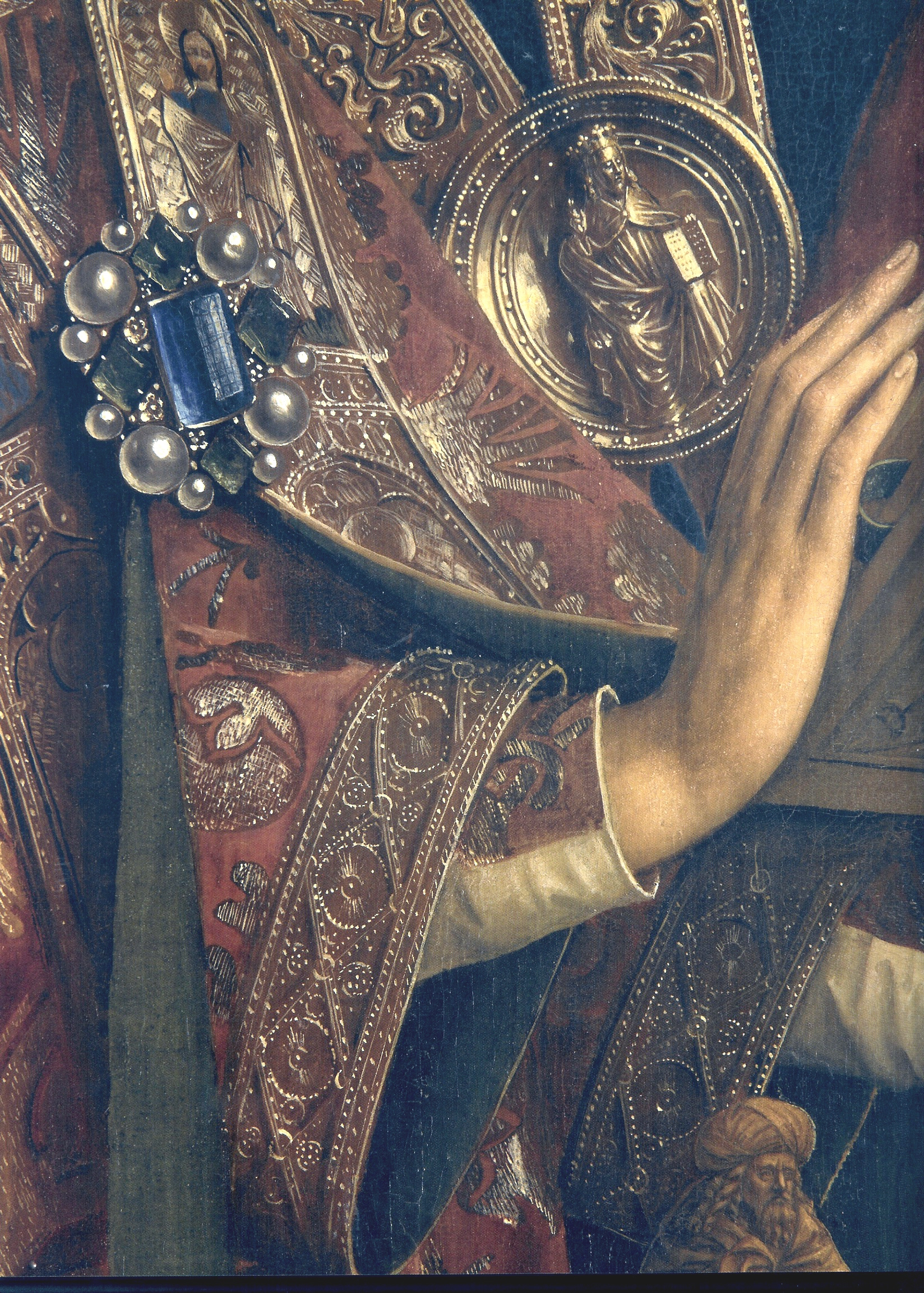 detail: Angels. In the central stone of the jewelled clasp of the cope a window is reflected.